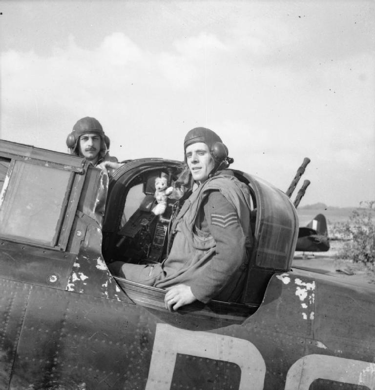 Flight Sergeant E. R. Thorn (pilot, left) and Sergeant F. J. Barker (air gunner) pose with their Boulton Paul Defiant turret fighter at RAF Biggin Hill, Kent, after destroying their 13th Axis aircraft. Note the teddy-bear mascot.